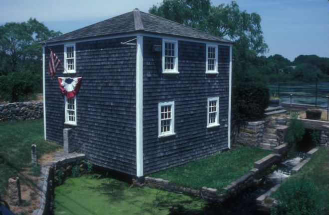 BAXTER GRIST MILL; BUILT 1710; CONVERTED TO TURBINE IN 18609 AND CEASED OPERATING IN 1900; NOW RESTORED TO WORKING CONDITION